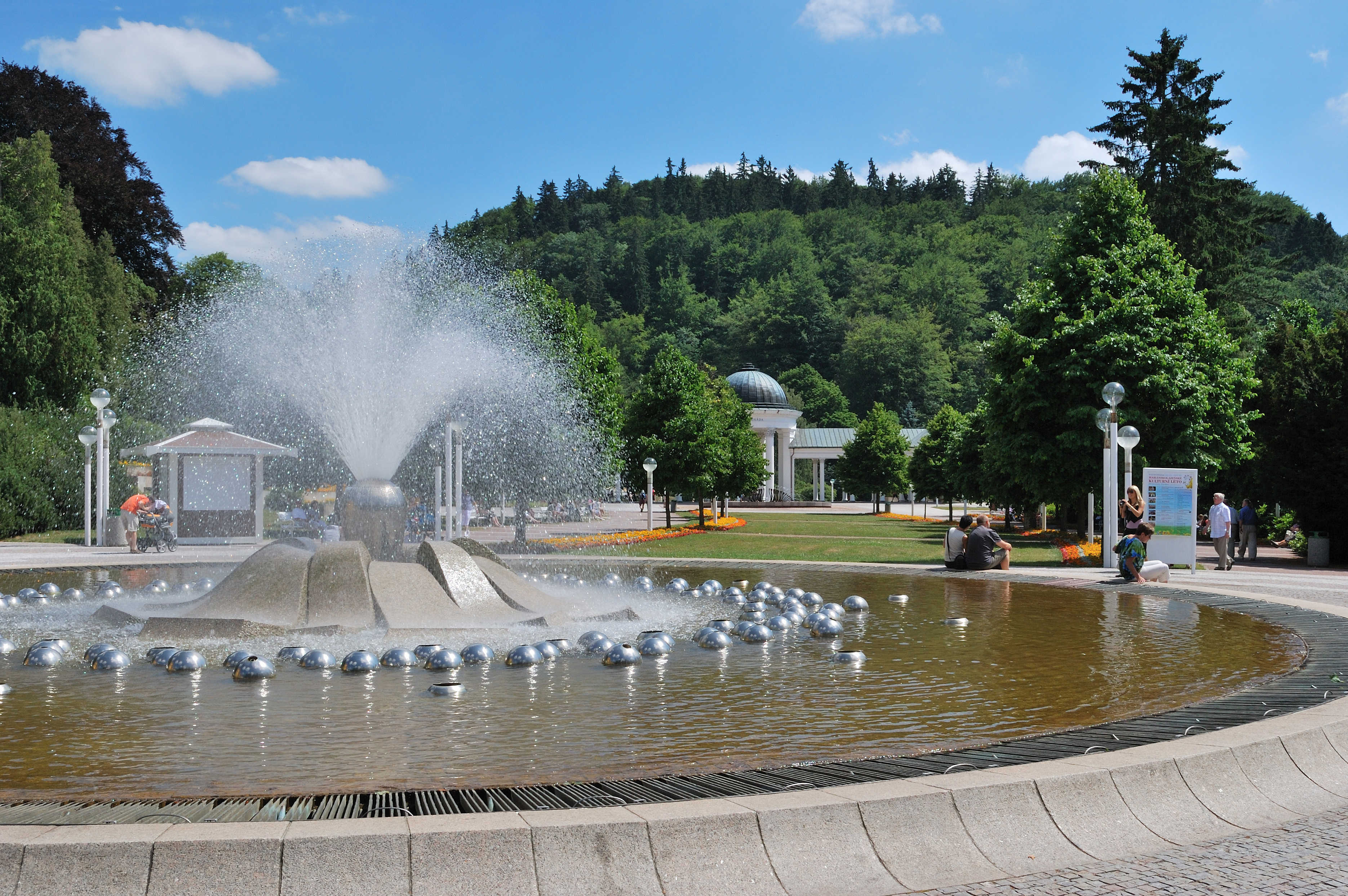 The Singing Fountain (Zpívající fontána) in Mariánské Lázně in the Czech Republic. In the background is the Colonnade of the Caroline's Spring.